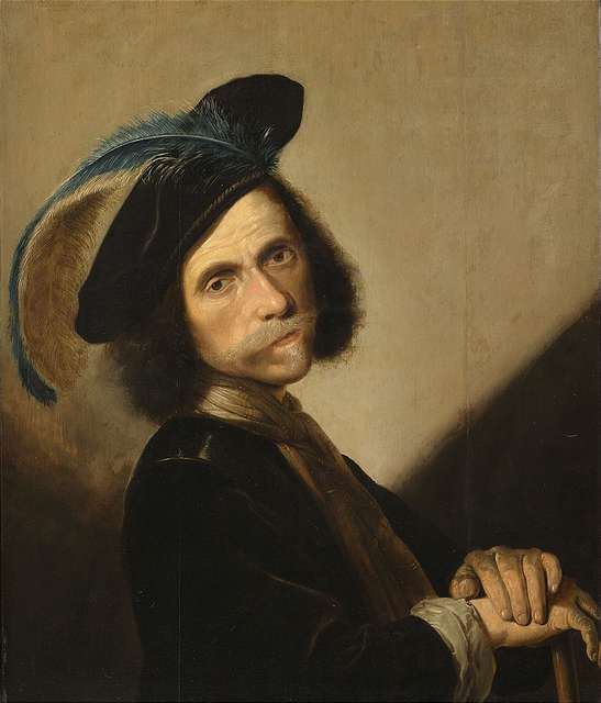 Portrait of a Gentleman